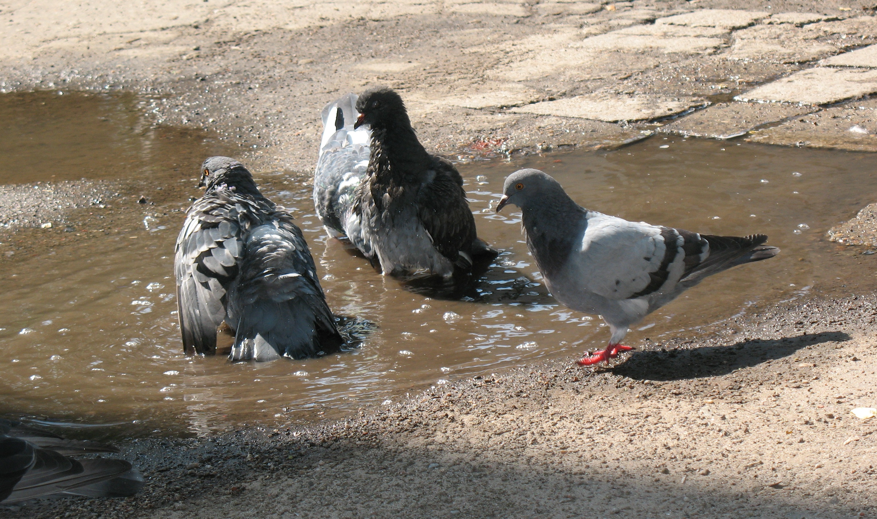 Rock Pigeons in 2010 Northern Hemisphere summer heat wave. Kharkov. + 37 C.